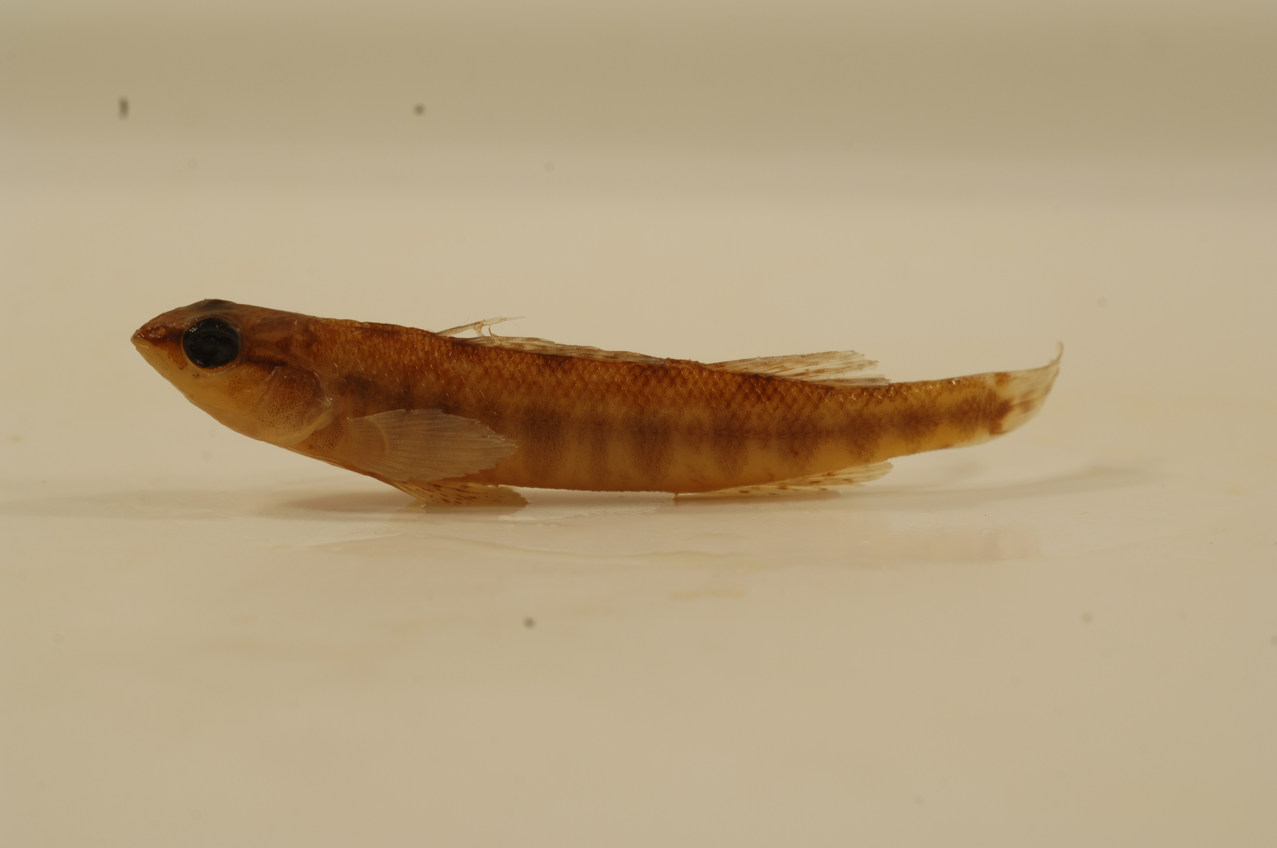 Blackbanded darter (Percina nigrofasciata)